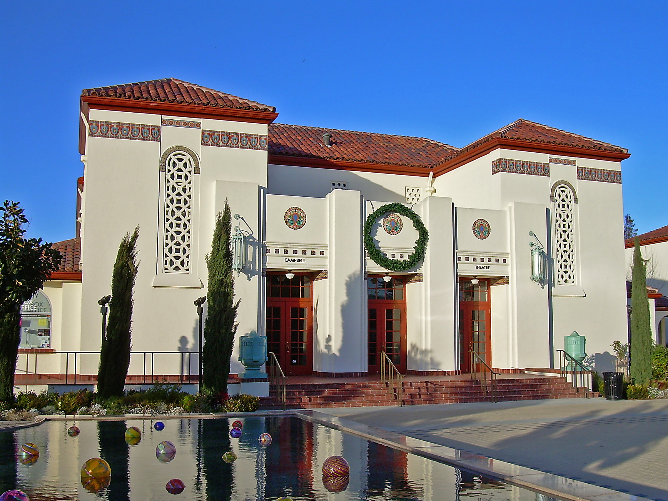 View of Campbell High School, a historic building.